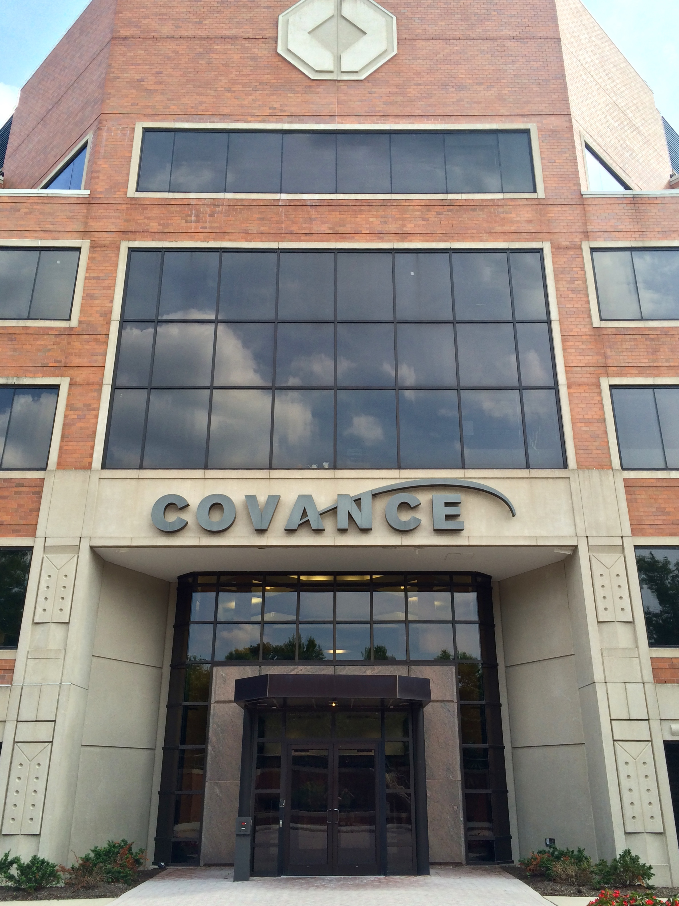 The headquarters of the Covance corporation in Princeton, New Jersey